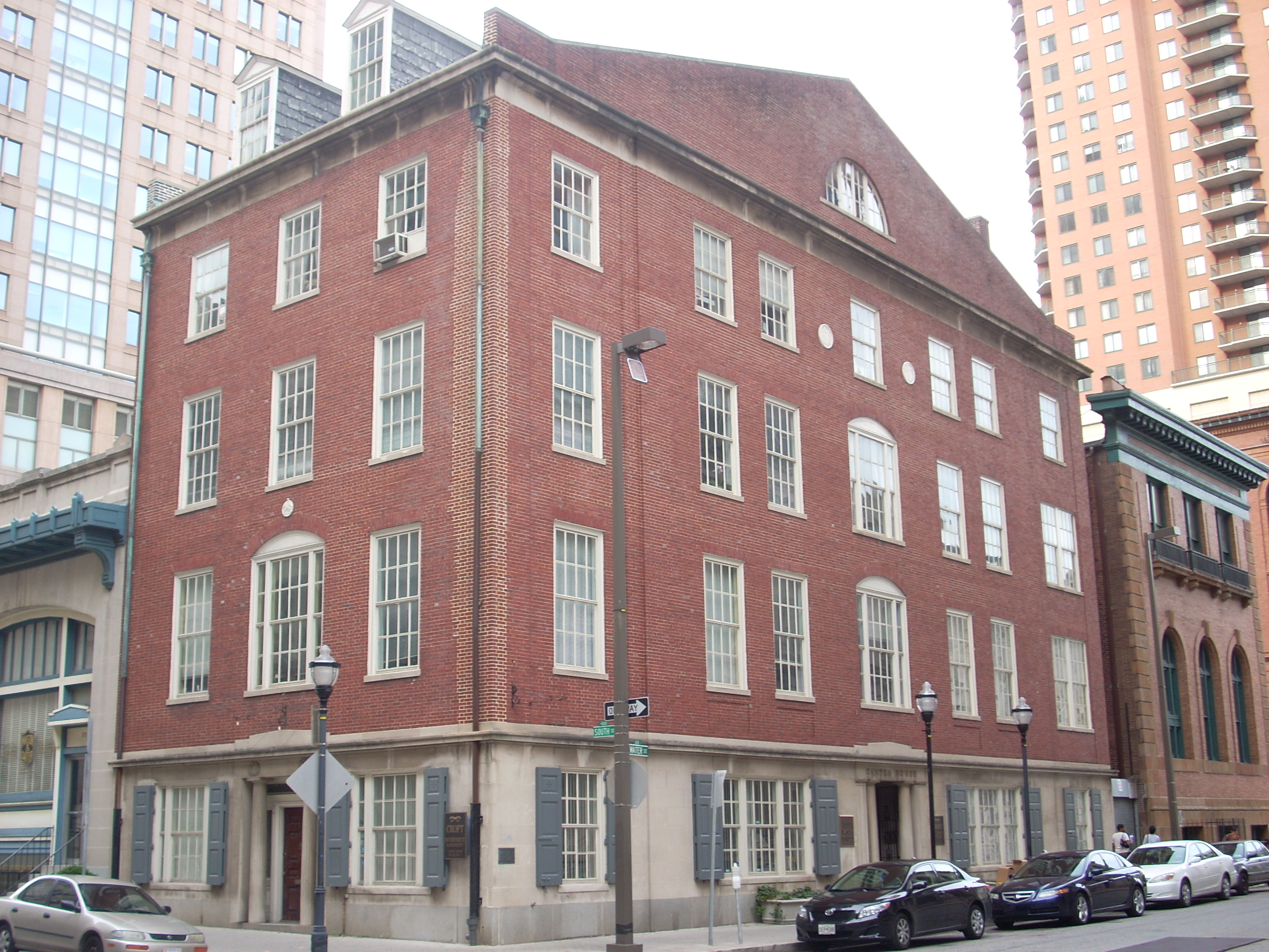 Canton House, 300 Water St., Baltimore City, Maryland Object location39° 17′ 20″ N, 76° 36′ 39″ W